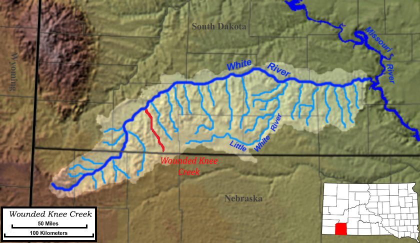 This is a modified version of a map taken from a US governmnet made national atlas that shows the Wounded Knee Creek.